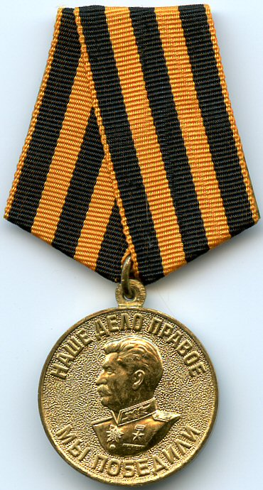 Obverse of the Soviet World War 2 Medal "For the Victory over Germany in the Great Patriotic War 1941-45"